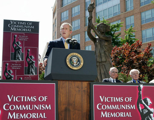 President George W. Bush addresses his remarks Tuesday, June 12, 2007, at the dedication ceremony for the Victims of Communism Memorial in Washington, D.C. President Bush, in recalling the lessons of the Cold War said, “ that freedom is precious and cannot be taken for granted; that evil is real and must be confronted.”